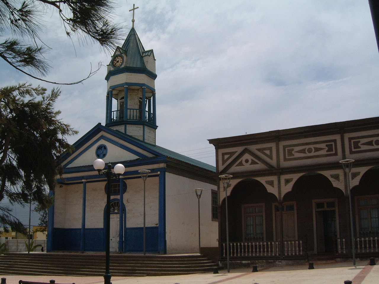 This is a photo of a national monument in Chile: 326